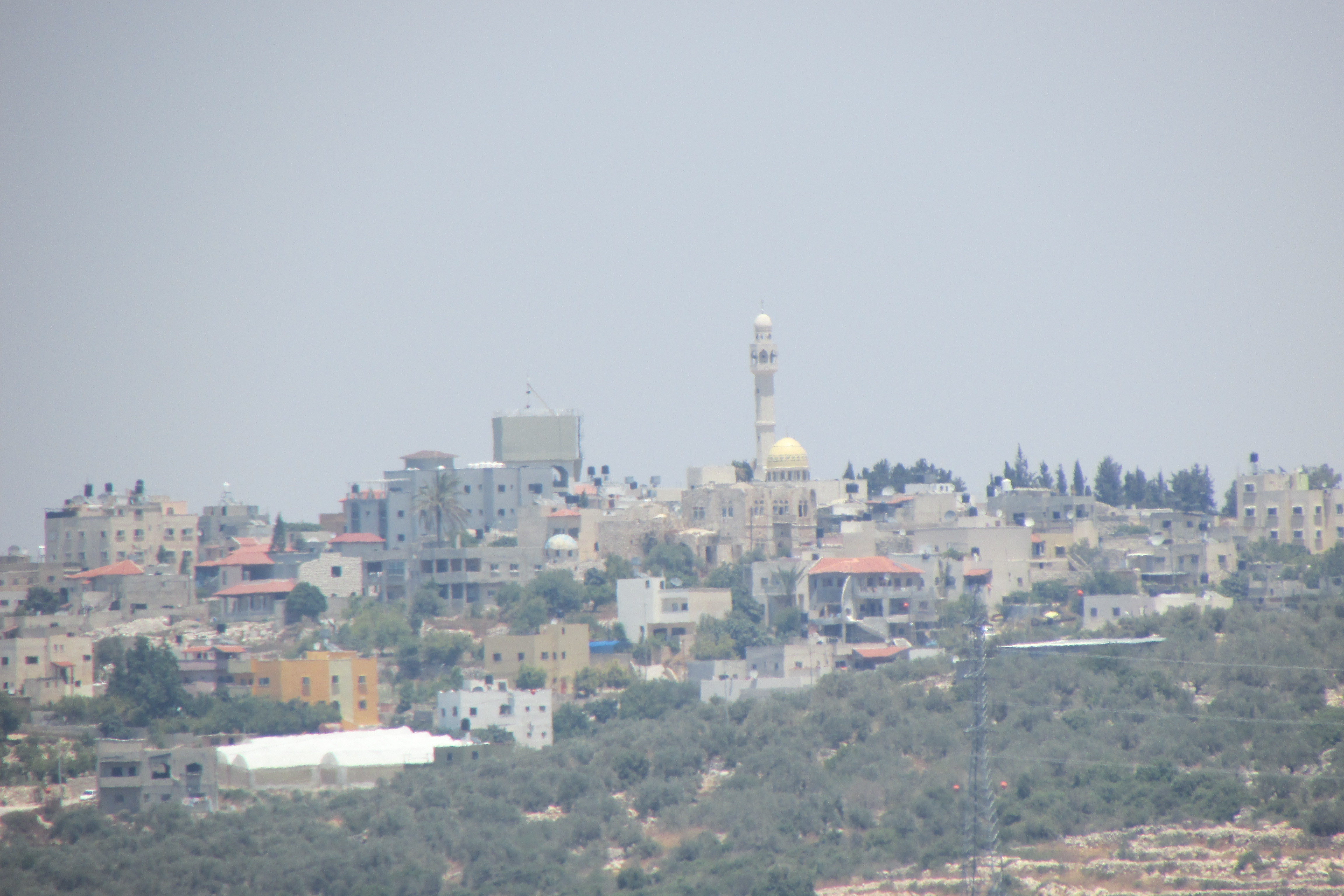 Jinsafut from Nofim